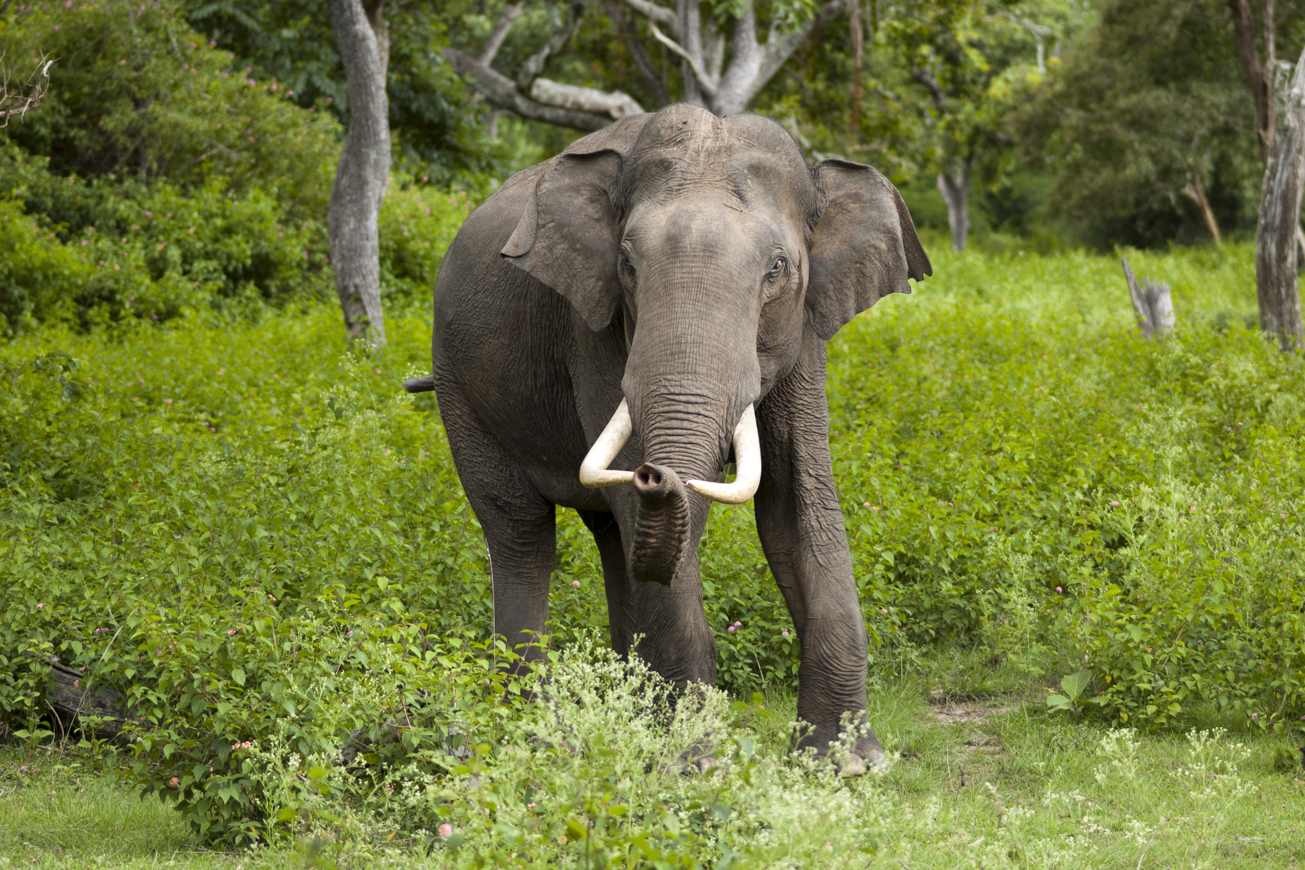 Indian elephant bull in musth in Bandipur National Park